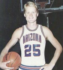 Basketball player Steve Kerr with the Arizona Wildcats.